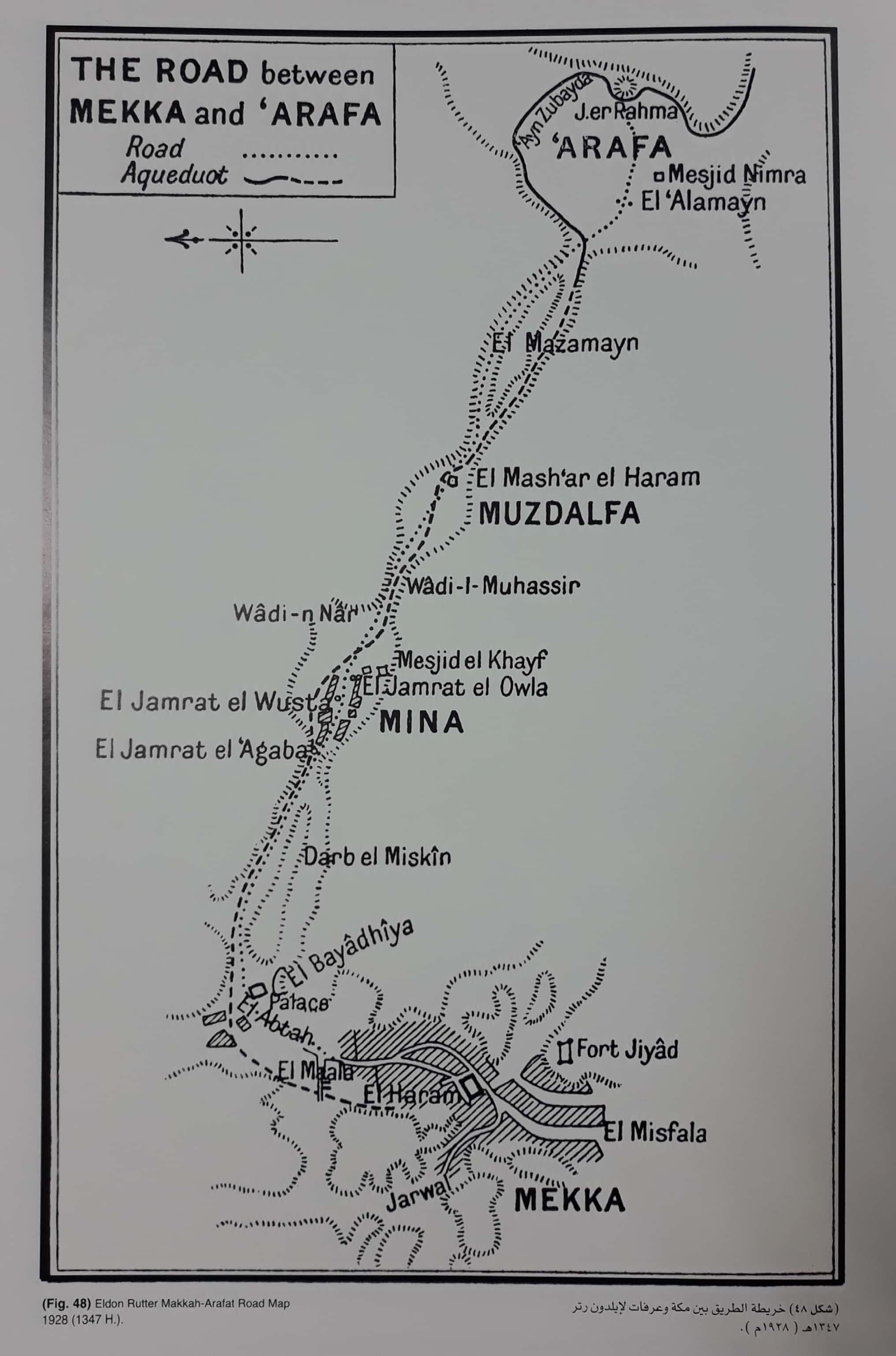 Eldon Ruther Makkah-Arafat Road Map 1928 (1347 H.).